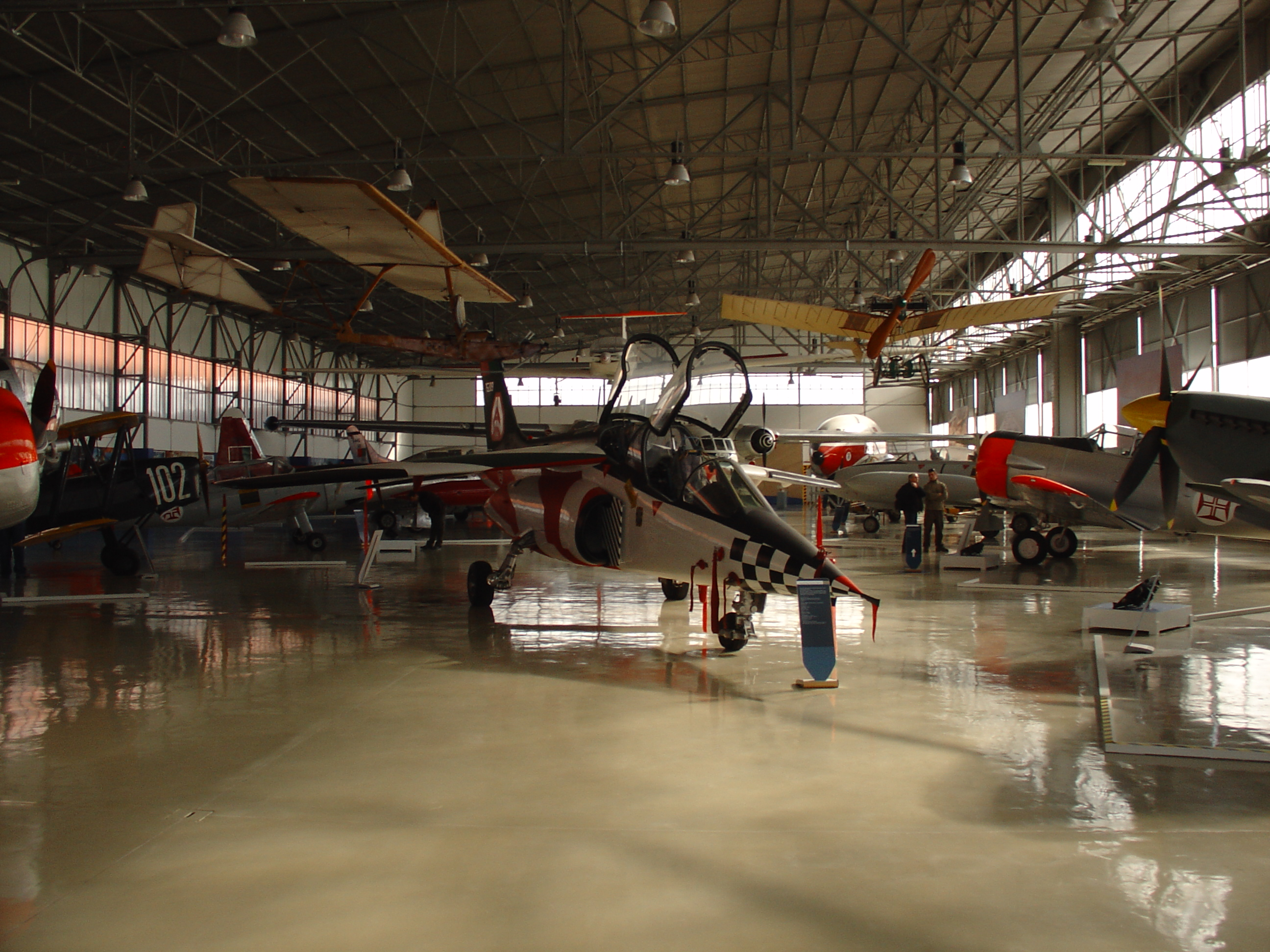 Alpha Jet in the Museu do Ar